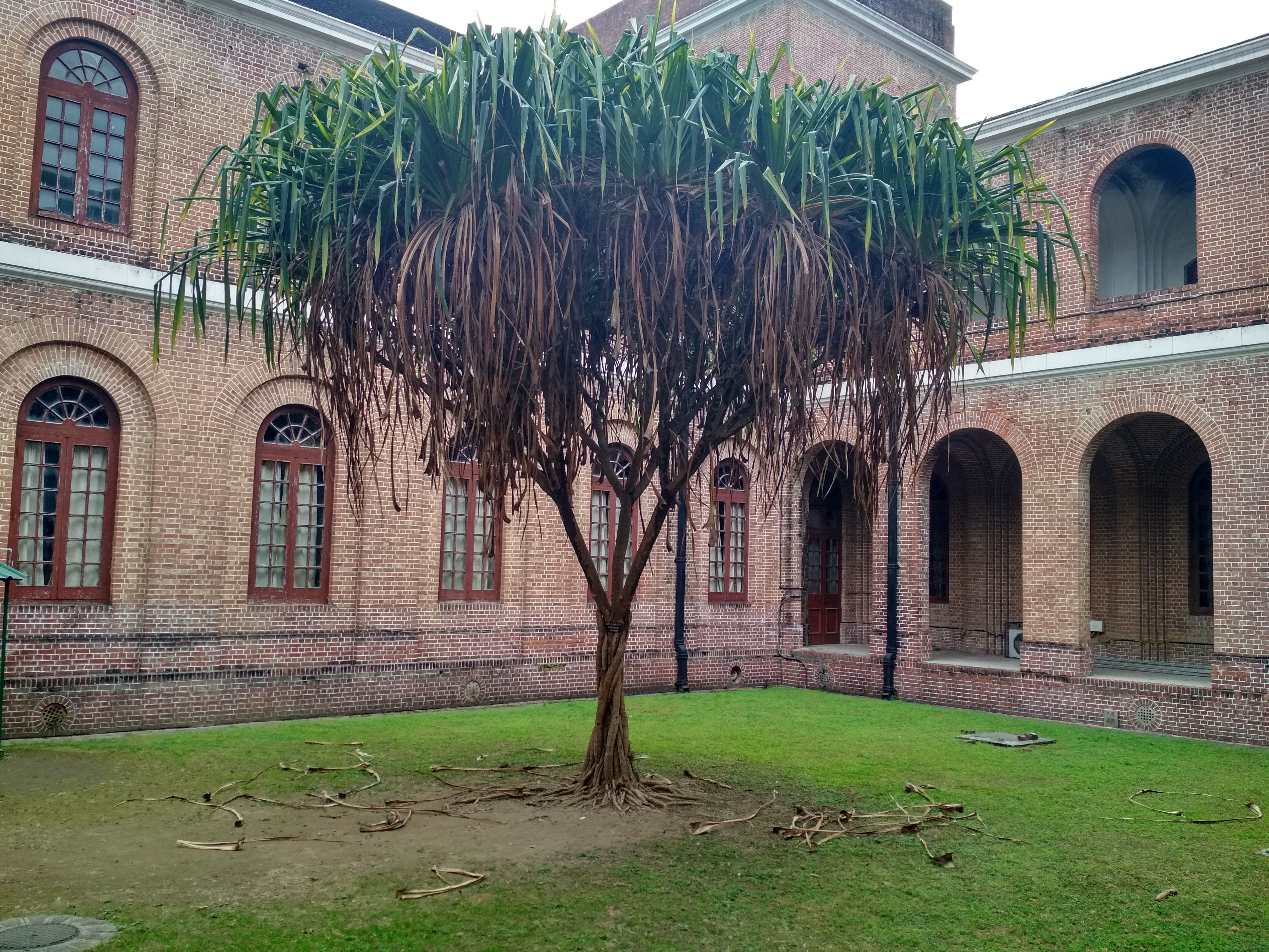 Pandanus Furcatus at Forest Research Institute Dehradun